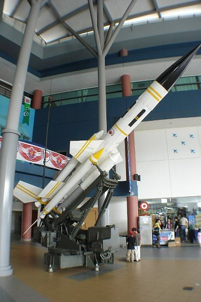 RSAF 1st SAM - Bloodhound Mk.II (retired in 1994) with 2nd generation ying-yang styled roundels